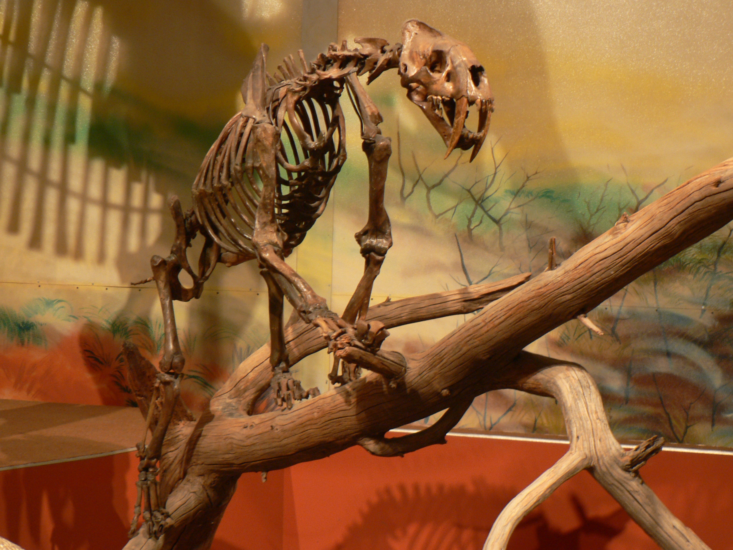 Smilodon fatalis in climbing posture, Cleveland Museum of Natural History